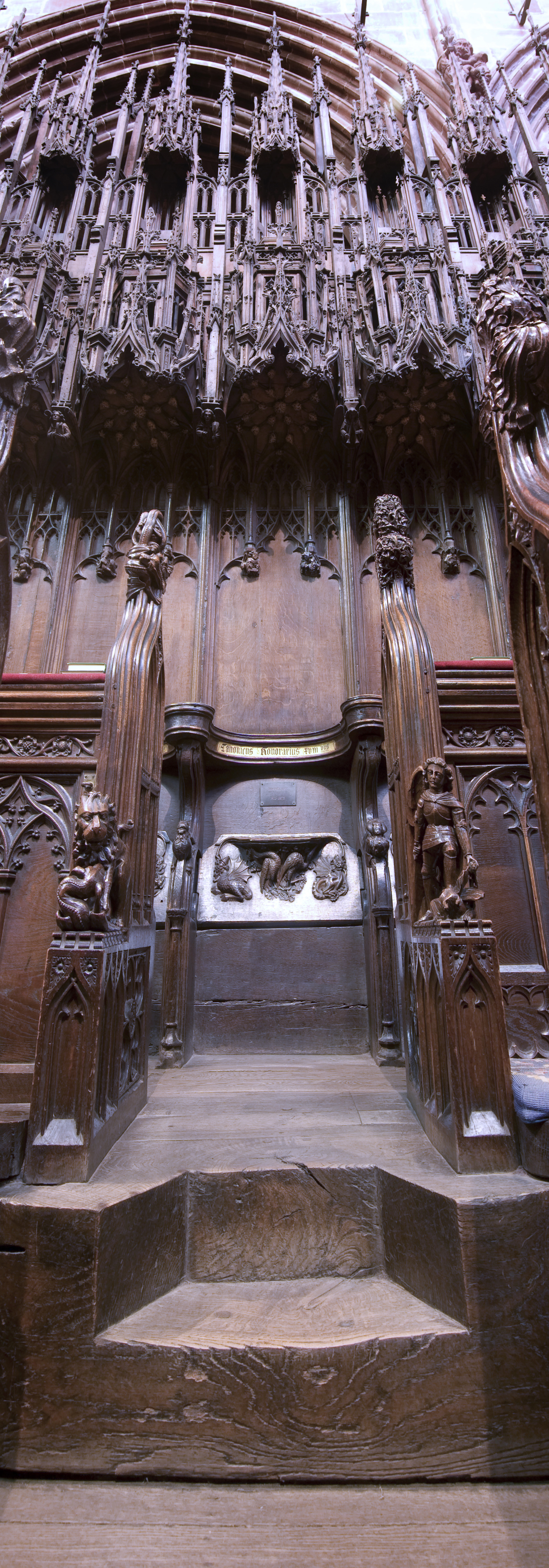 Misericord at Chester Cathedral